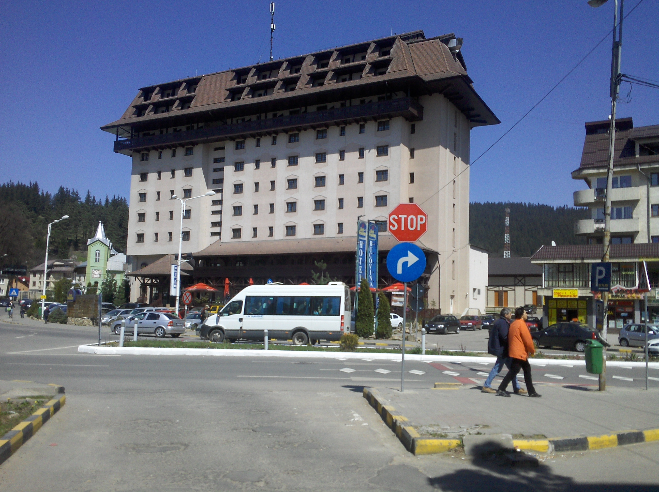 hotel in Gura Humorului